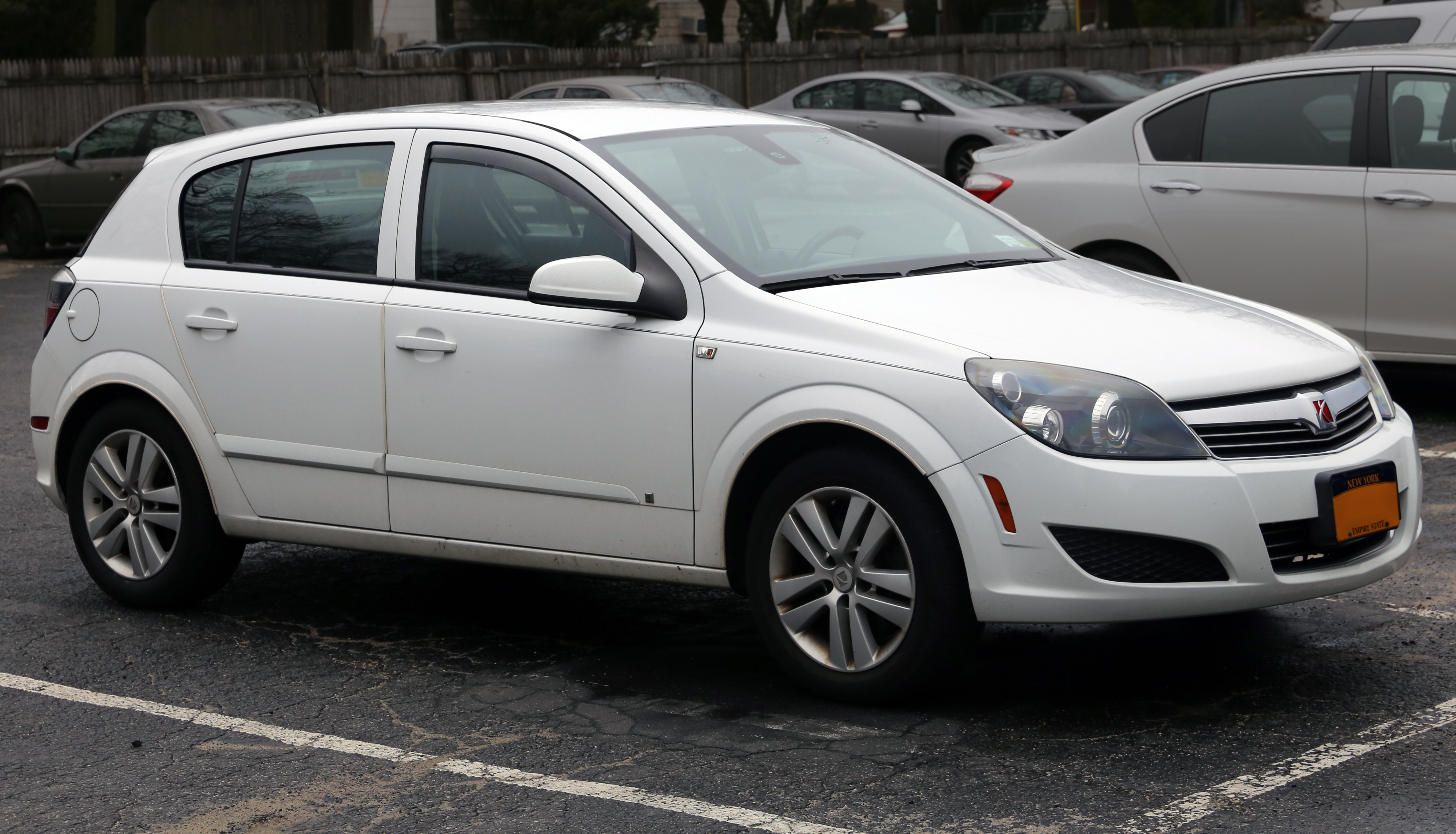 A 2008 Saturn Astra XE five-door.